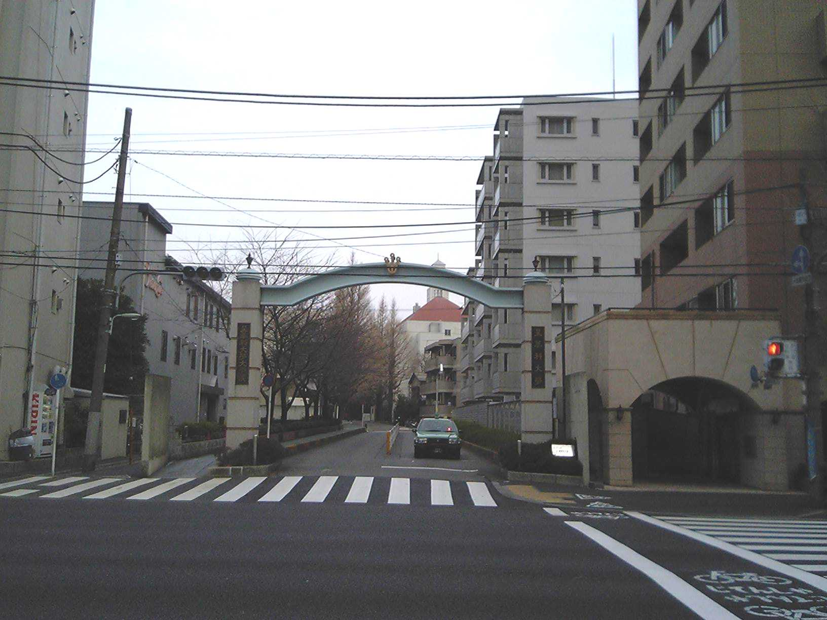 Entrance to Hoshi University located in Shinagawa, Tokyo, Japan.